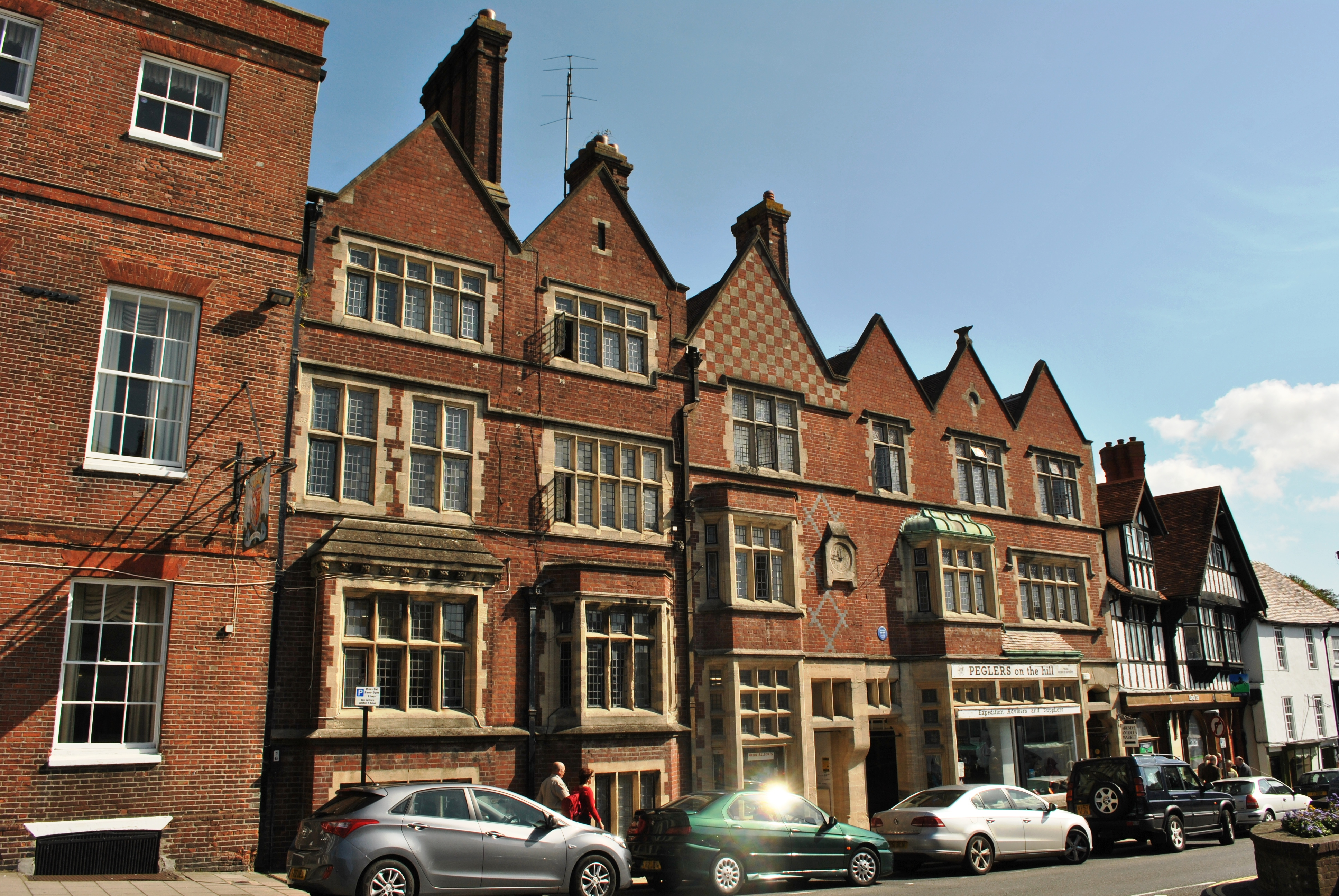 Arundel